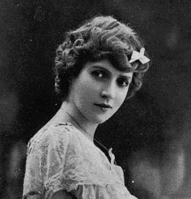 French actress Ève Lavallière, 1866-1929, circa 1890